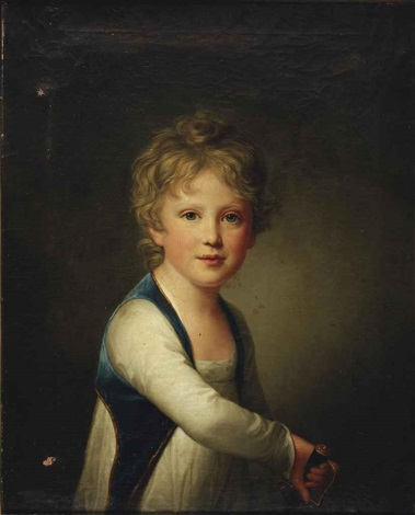 Friedrich Carl Gröger: Portrait of Graf Ernst zu Rantzau (1802-1862) as a child, half-length, in a white chemise with a blue velvet gilet , 1808; oil on canvas, 67.6 x 55.1 cm. (26.6 x 21.7 in.), sold as Lot #843, December 11, 2012 by Christie's, Amsterdam, European Noble and Private Collections (Sale 3017)